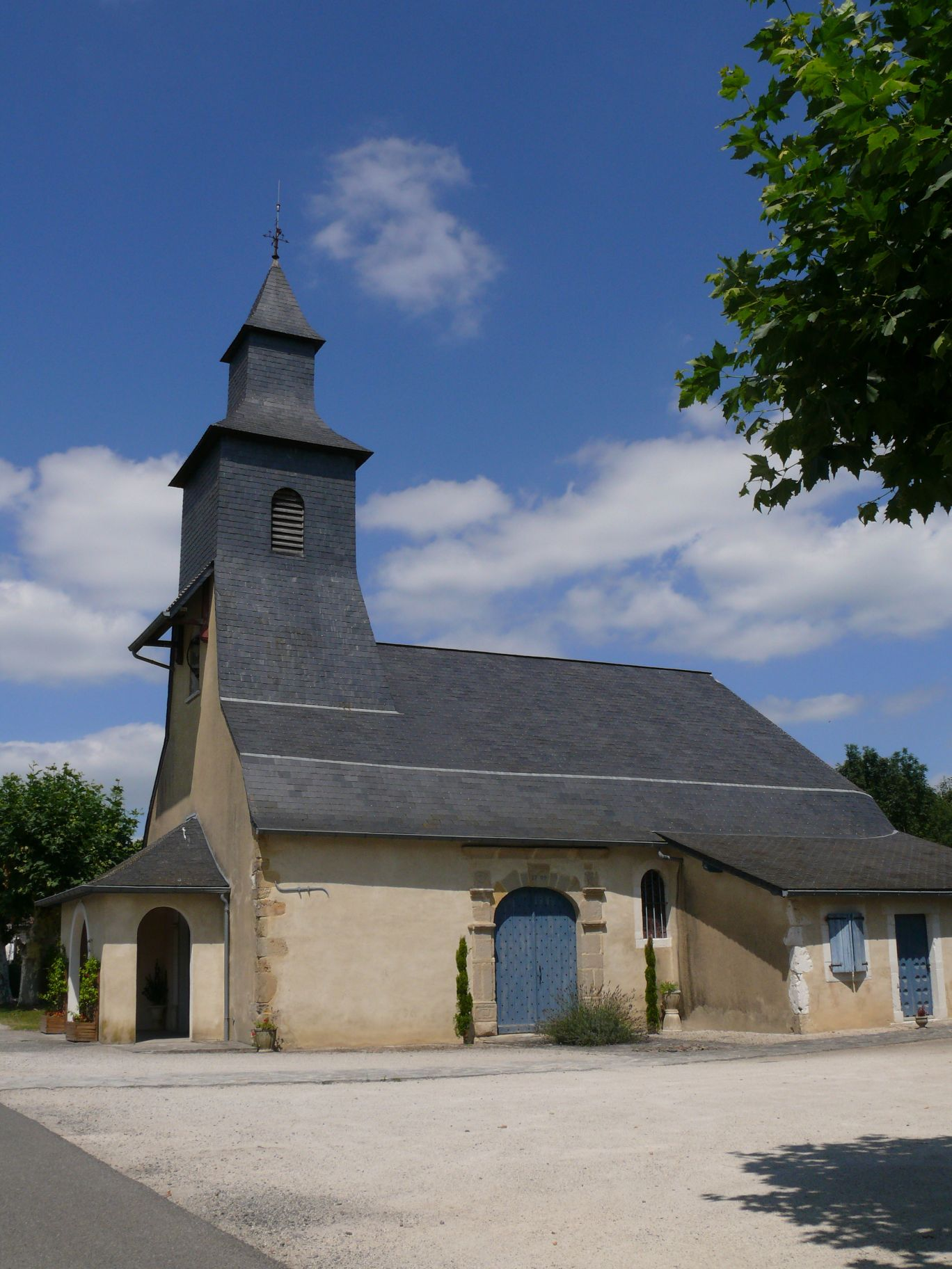 Our Lady's church of Géus-d'Arzacq (Pyrénées-Atlantiques, Aquitaine, France).